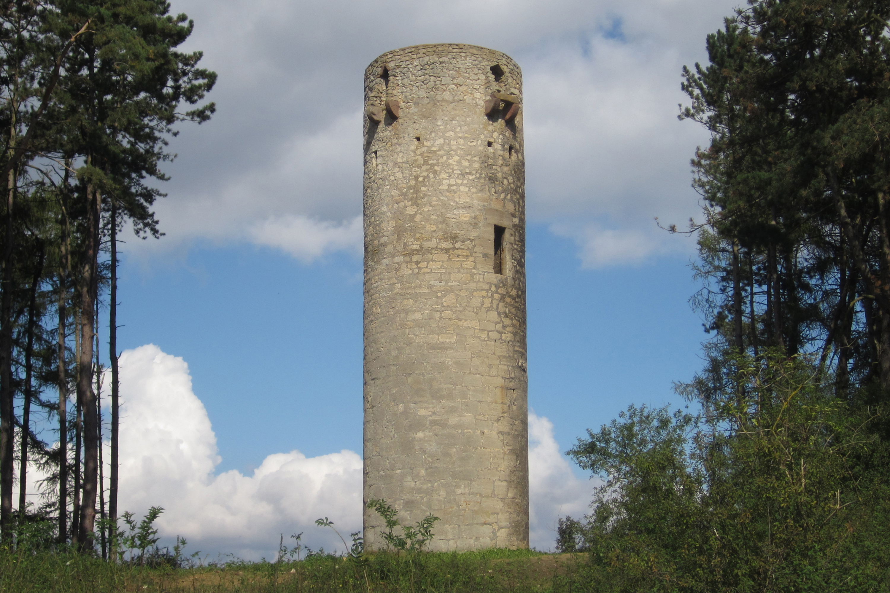 The Eulenturm (Owl tower) near Calenberg, a part of the East Westphalian City of Warburg in the Höxter district in North Rhine-Westphalia. The fortified tower was first mentioned in 1311. This is a photograph of an architectural monument.It is on the list of cultural monuments of Warburg